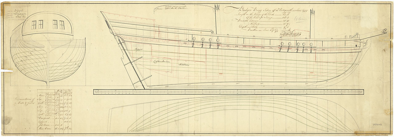 BADGER 1777 lines & profile